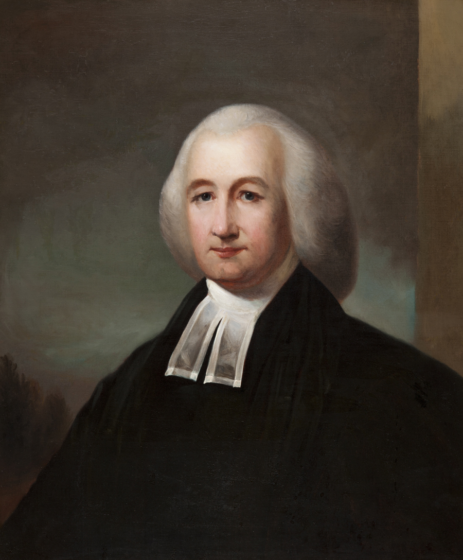 Portrait of Henry Melchior Muhlenberg, Preservation Society of Newport County